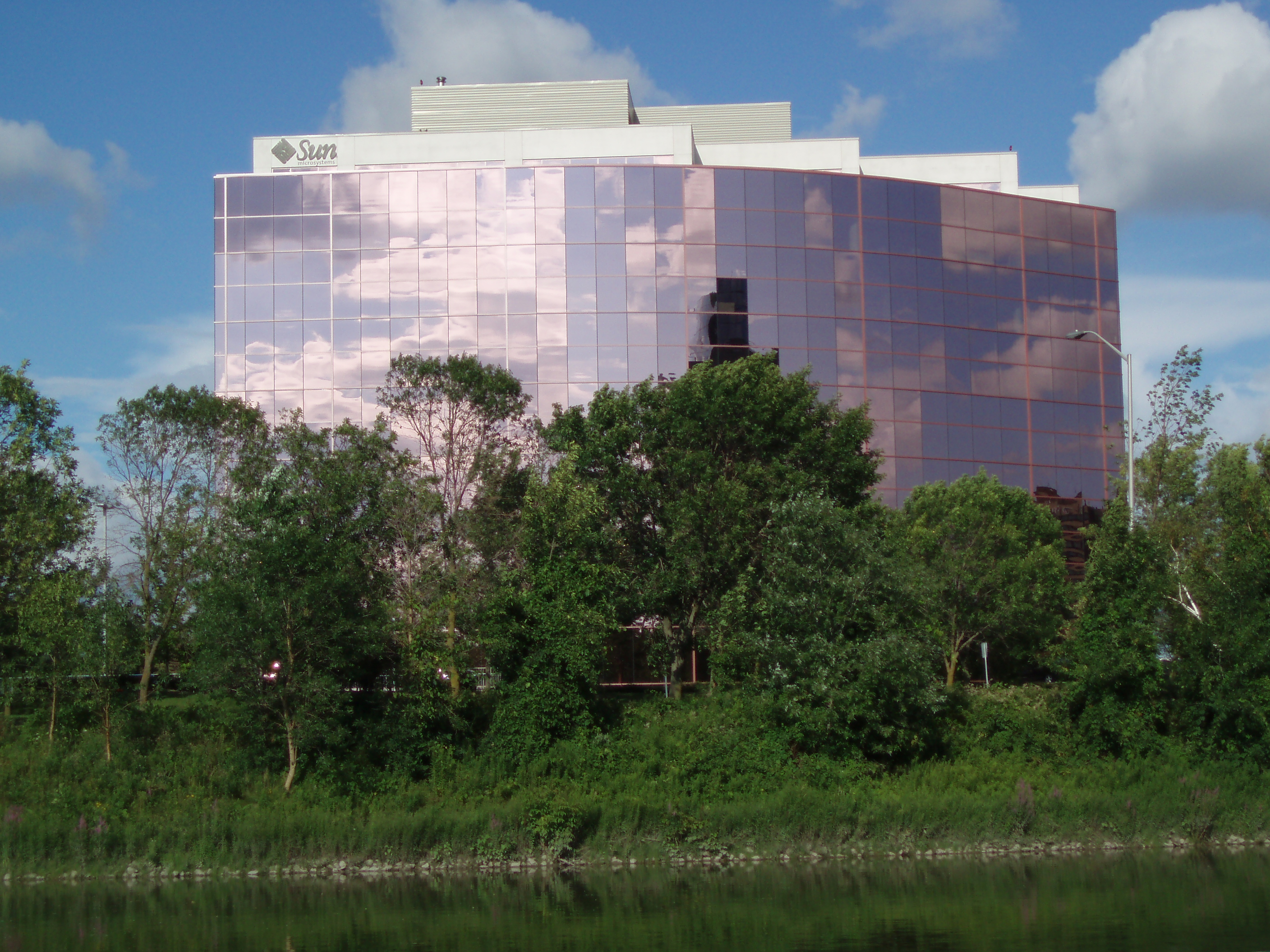 Sun Microsystems of Canada in Markham